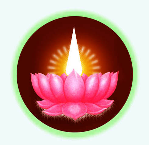 I created this Image